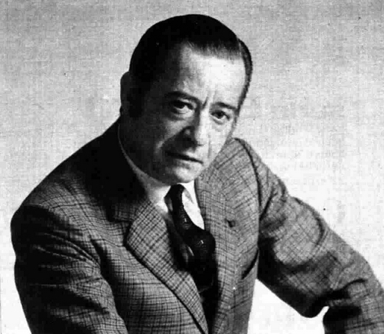 Italian actor Carlo D'Angelo